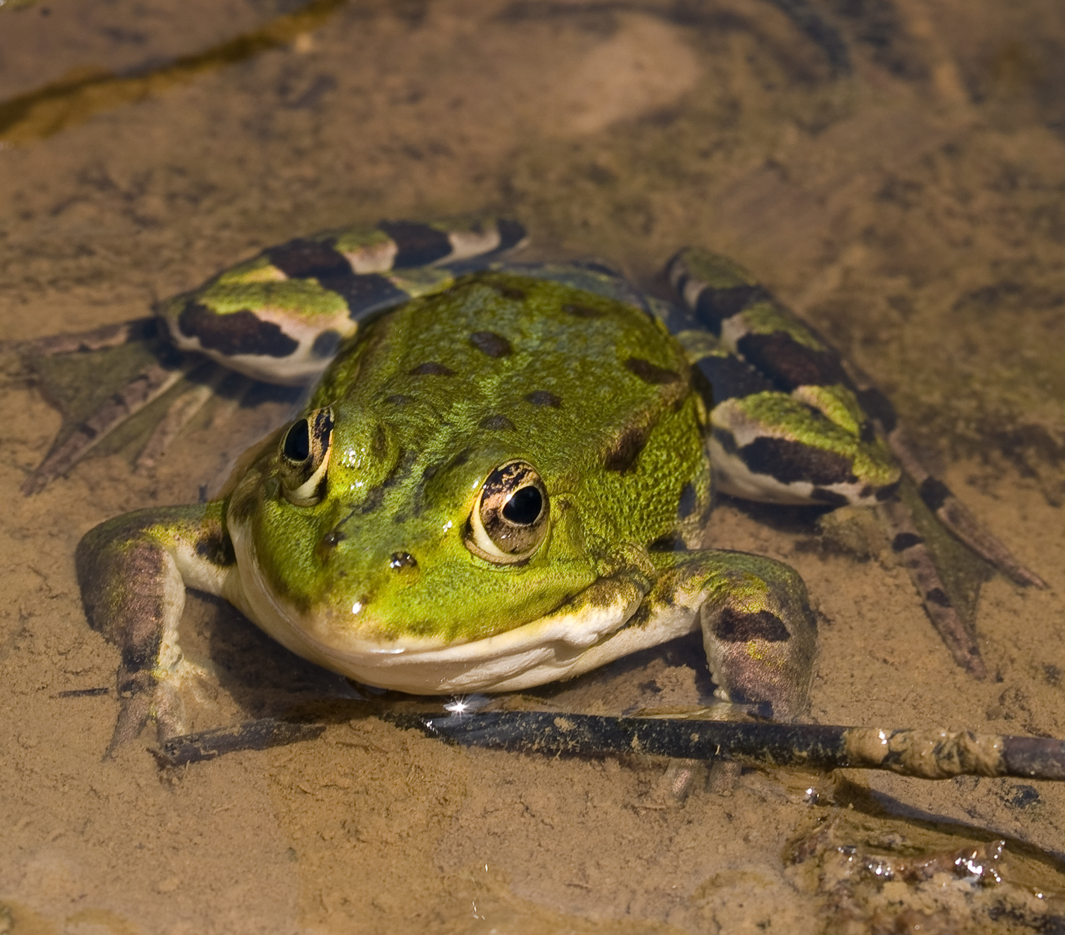 An Edible Frog in Normandy, North France. I found loads of them in a little pond next to a forest parksite. It is about 8 to 10cm in length.